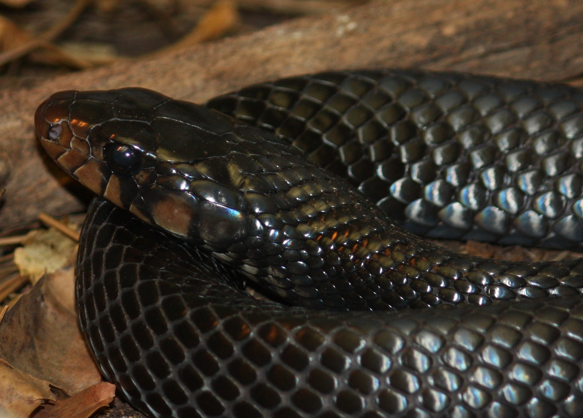 Eastern Indigo Drymarchon couperi at the Louisville Zoo